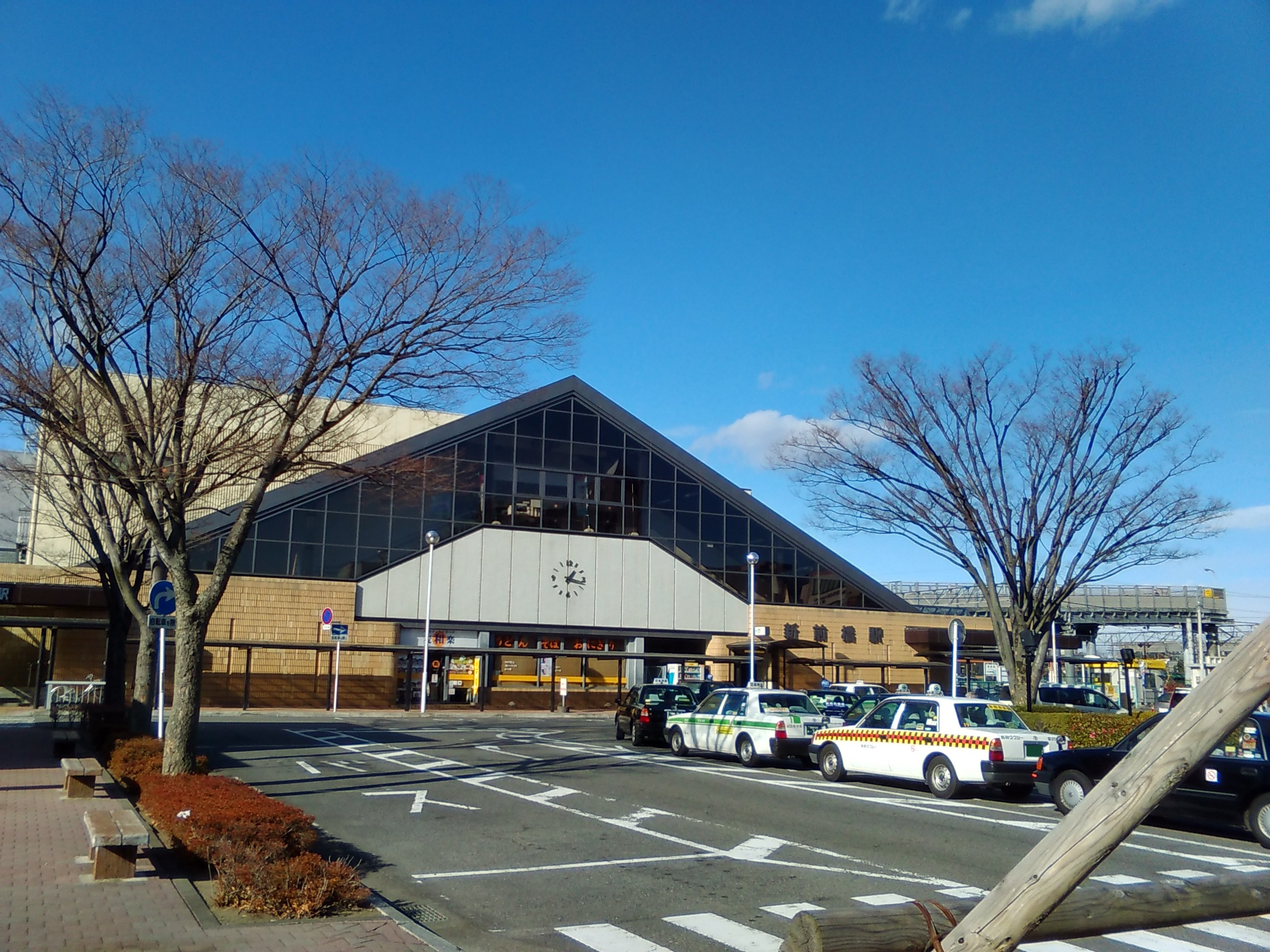 East side of Shin-Maebashi Station in Maebashi, Gunma, Japan.